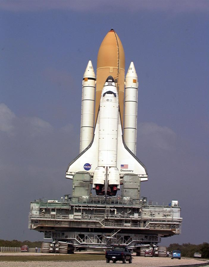 Foto tomada de Photos credit: Mark Baugh